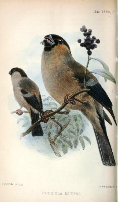 « Pyrrhula murina » = Pyrrhula murina (Azores Bullfinch)